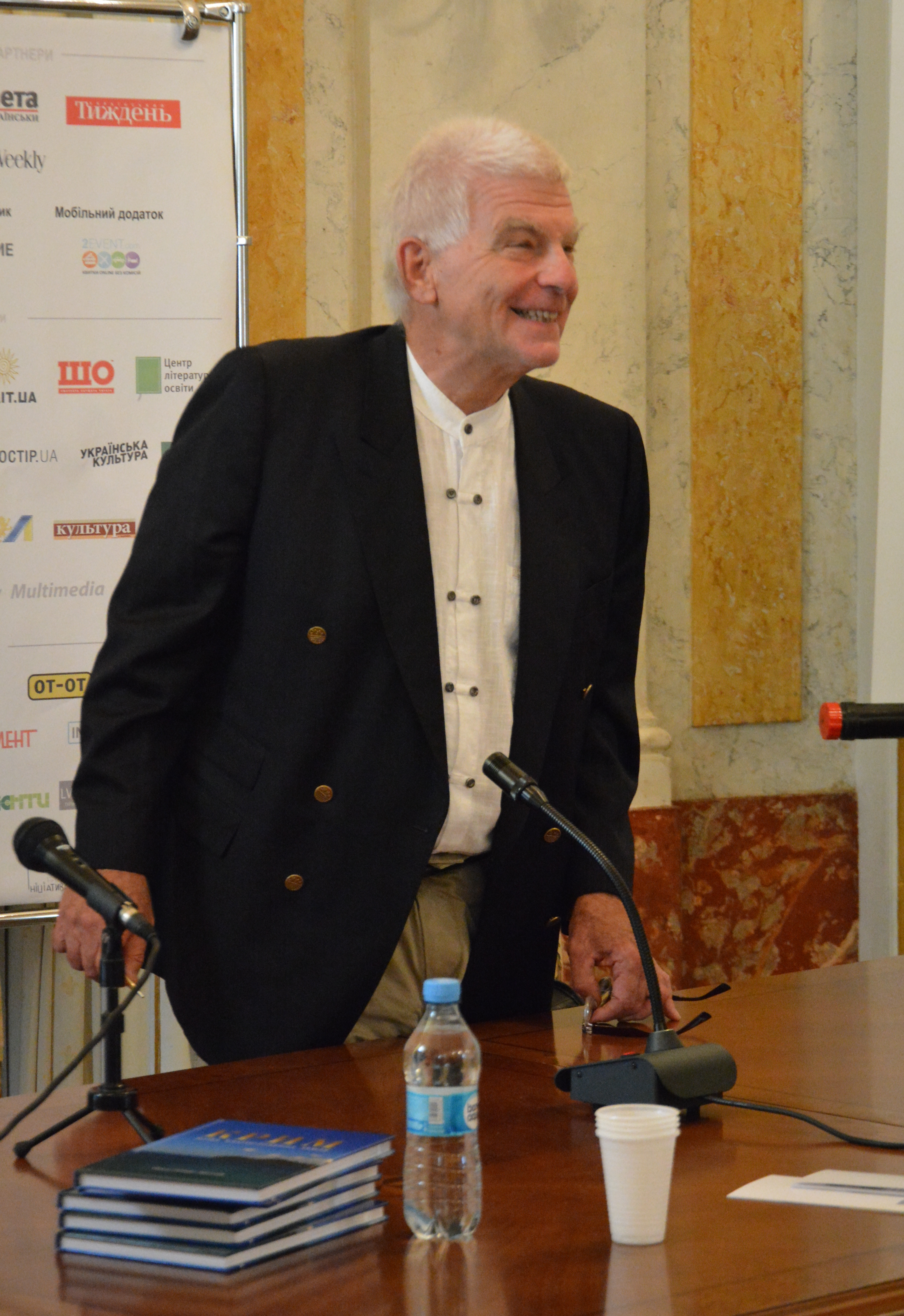 Paul Robert Magocsi at the presentation of one of his bestsellers – “A history of Ukraine: The Land and Its Peoples” (2010, translation to Ukrainian published in 2012) - at Lviv Publishers’ Forum-2014. Paul Robert Magocsi (born in 1945) is an American-Canadian historian, the researcher of history of Ukraine and Rusyns, ethnical groups of Canada, professor of history, political science and Chair of Ukrainian Studies at the University of Toronto, a Fellow of the Royal Society of Canada in 1996, currently acts as Honorary Chairman of the World Congress of Rusyns. He has the wide range of scientific interests, he’s author of more than 600 publications (incl. more than 20 books) with the subject area of history, political science, bibliography, sociolinguistics and cartography.